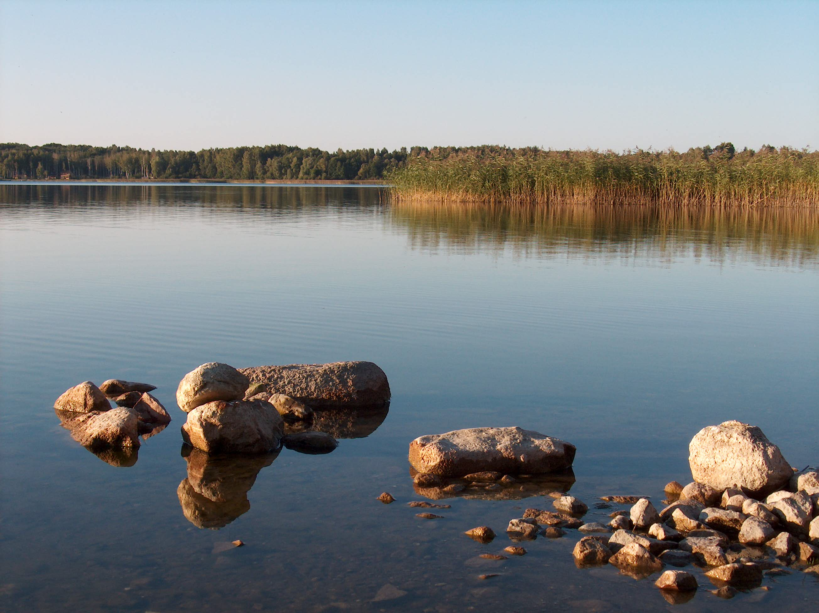 Sauka lake, Latvia